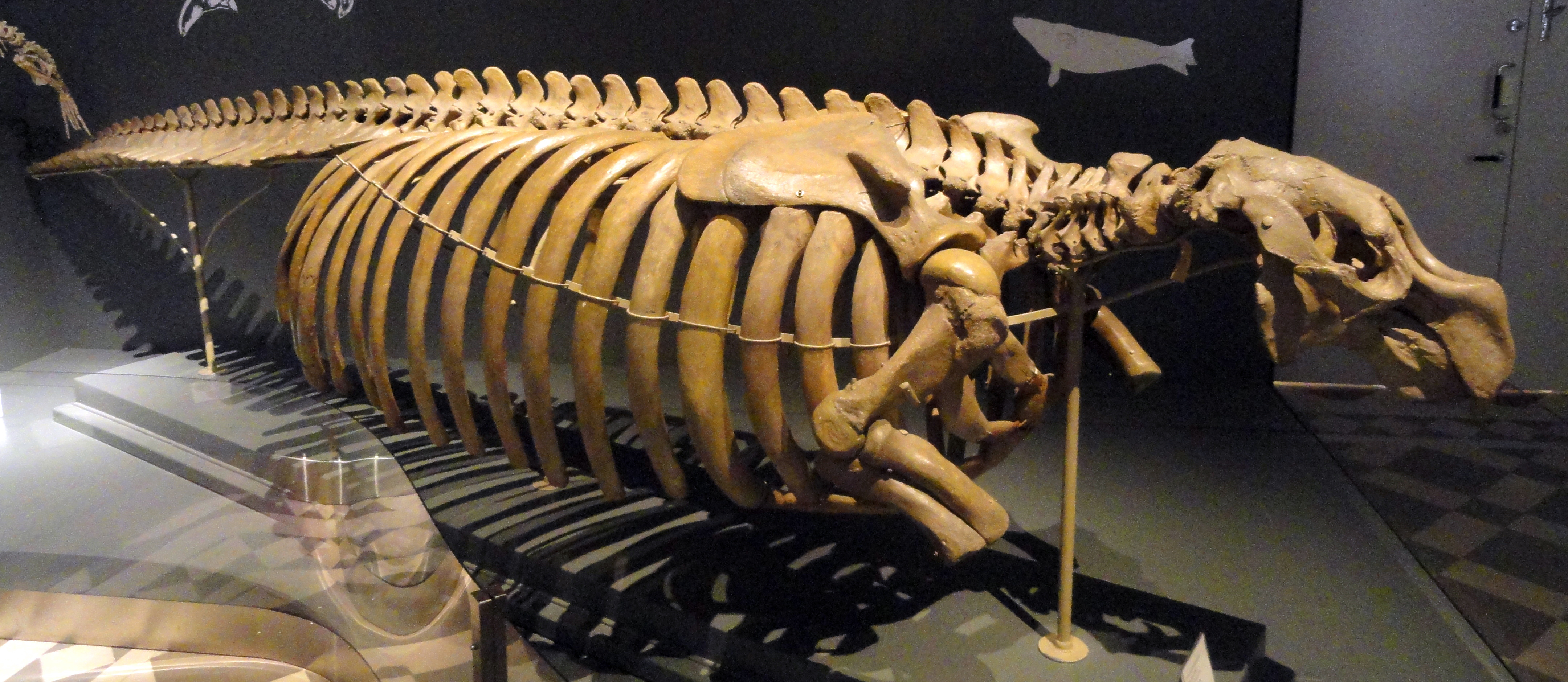 Exhibit in the Finnish Museum of Natural History, Helsinki, Finland.